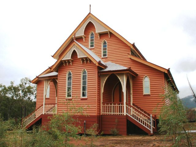 St Patricks Church, Mount Perry from W (2009)